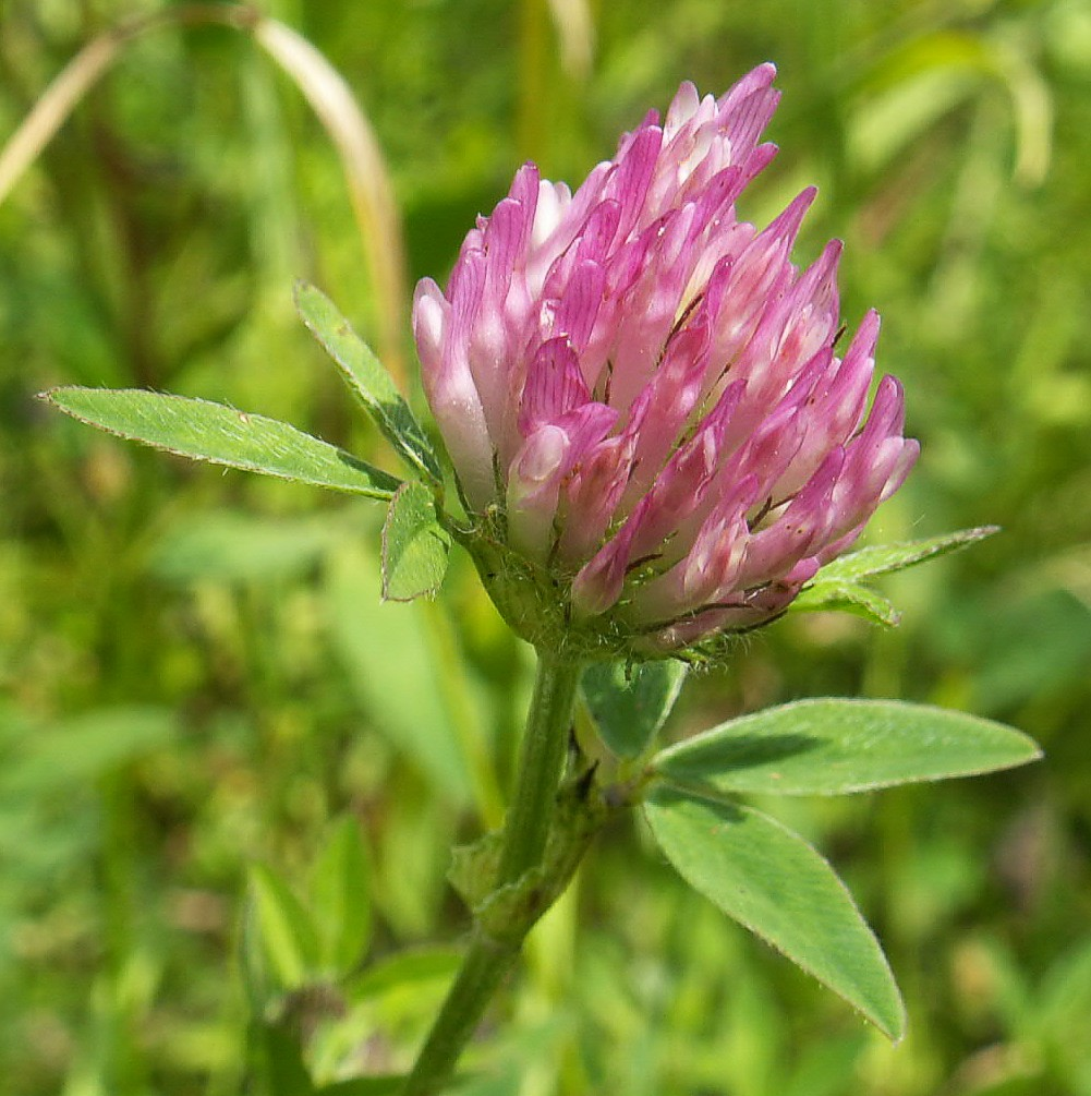 Trifolium medium. Kleby near Golczewo, NW Poland